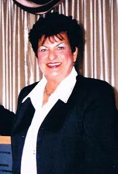 Pnina Eldar, Israeli social worker, founder of "The Israel Society for the Prevention of Alcoholism"